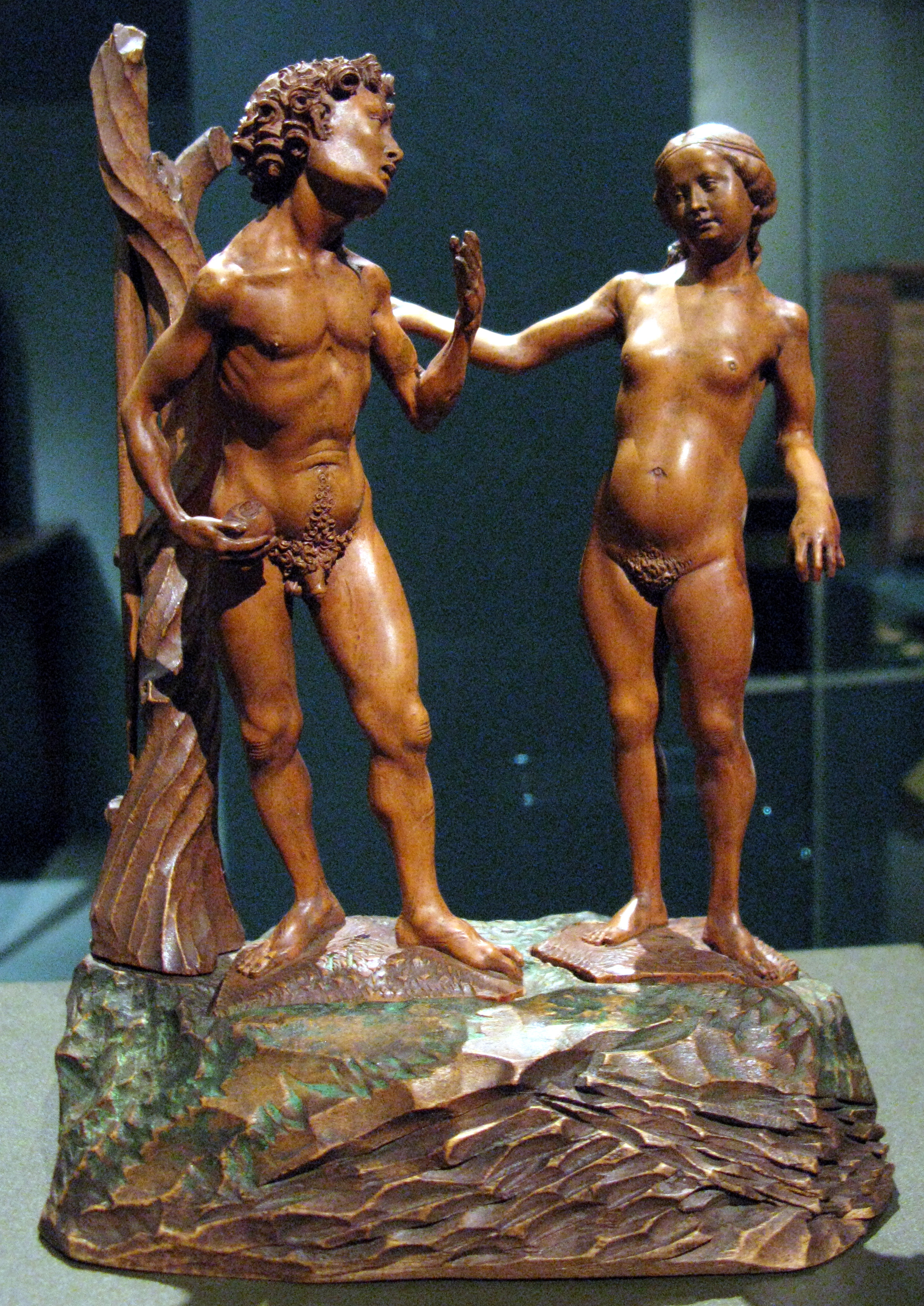 Hans Wydyz: Adam and Eve; Historisches Museum Basel